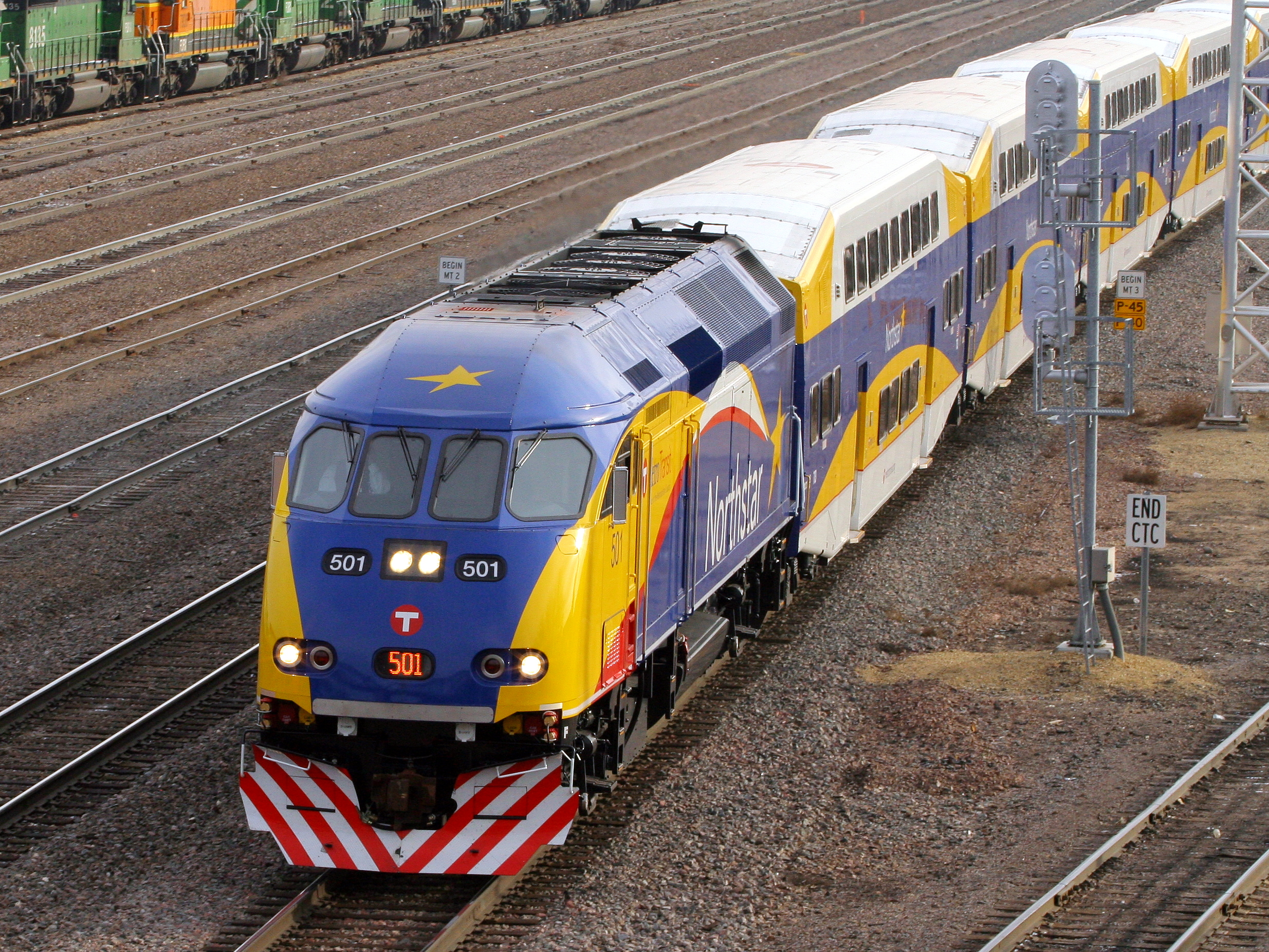 Northstar Commuter Rail engine 501 running north through the Northtown rail yard in Minneapolis, Minnesota on the way to Fridley station.